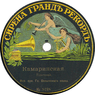 Label of record produced by Syrena Rekord in 1908